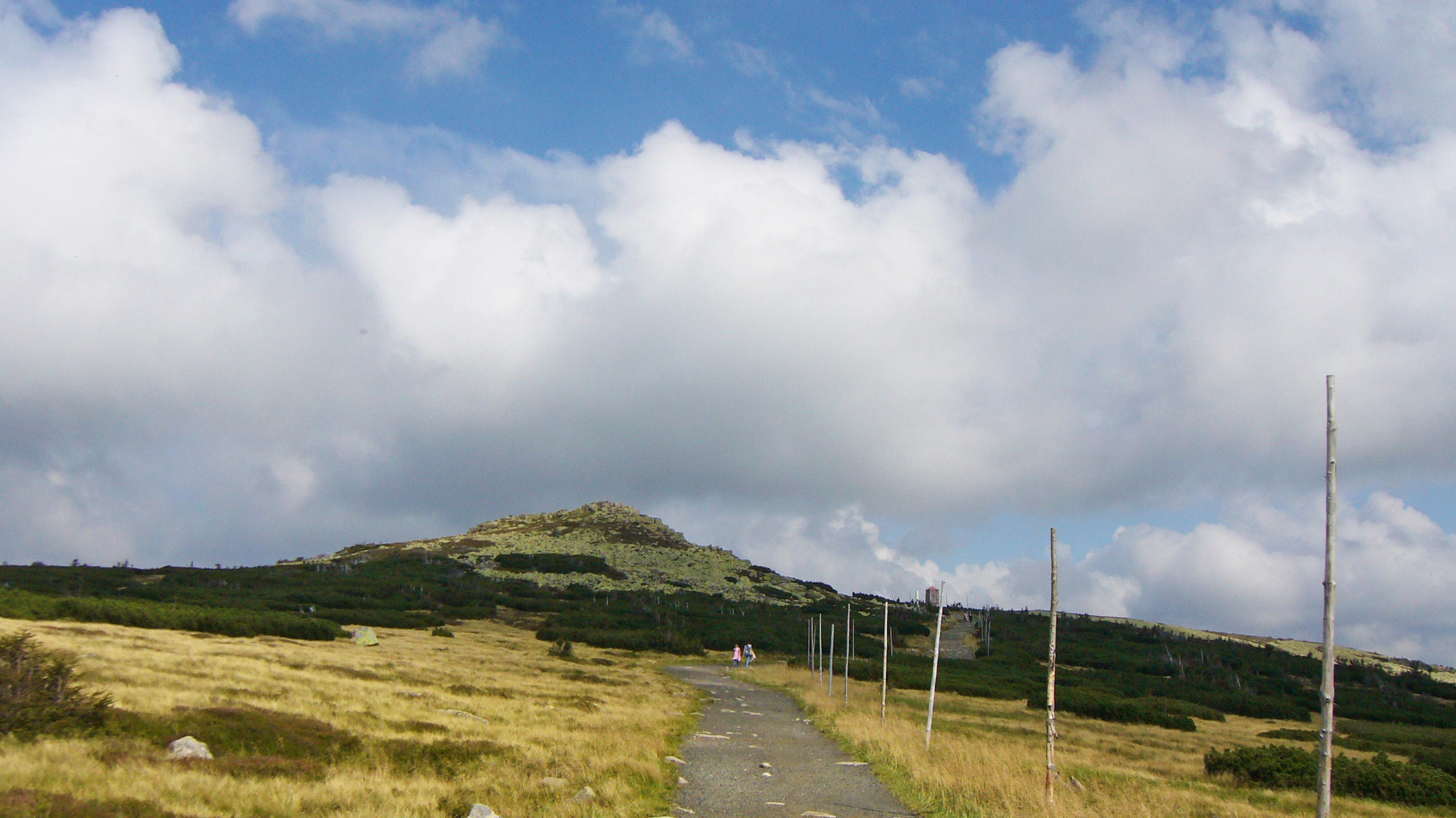 Peak of Labski Szczyt mountain seen from the south. Peak lies on the Polish-Czech border